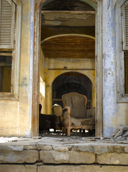 A narrow view of the outside of a room of a delapidated house, viewing an armchair within the room. Associated with Harry St John Bridger Philly - British Museum 2017